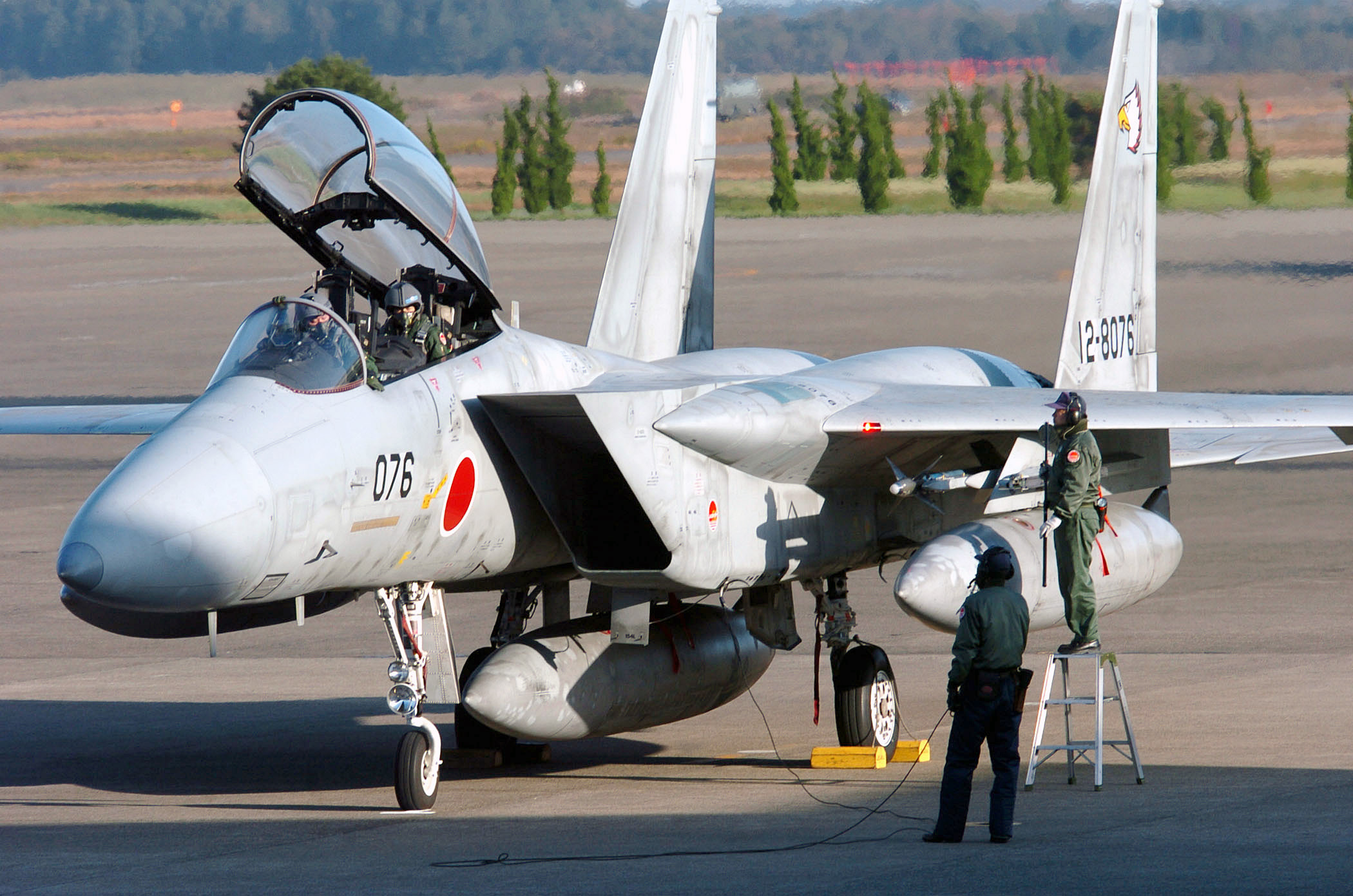 F-15DJ (076) of 204 Sqn prepares to take off during exercise Keen Sword 05 at Hyakuri Air Base, on Nov. 17, 2004. (U.S. Air Force Photo by Master Sgt. Val Gempis/Released)Nikon D2H